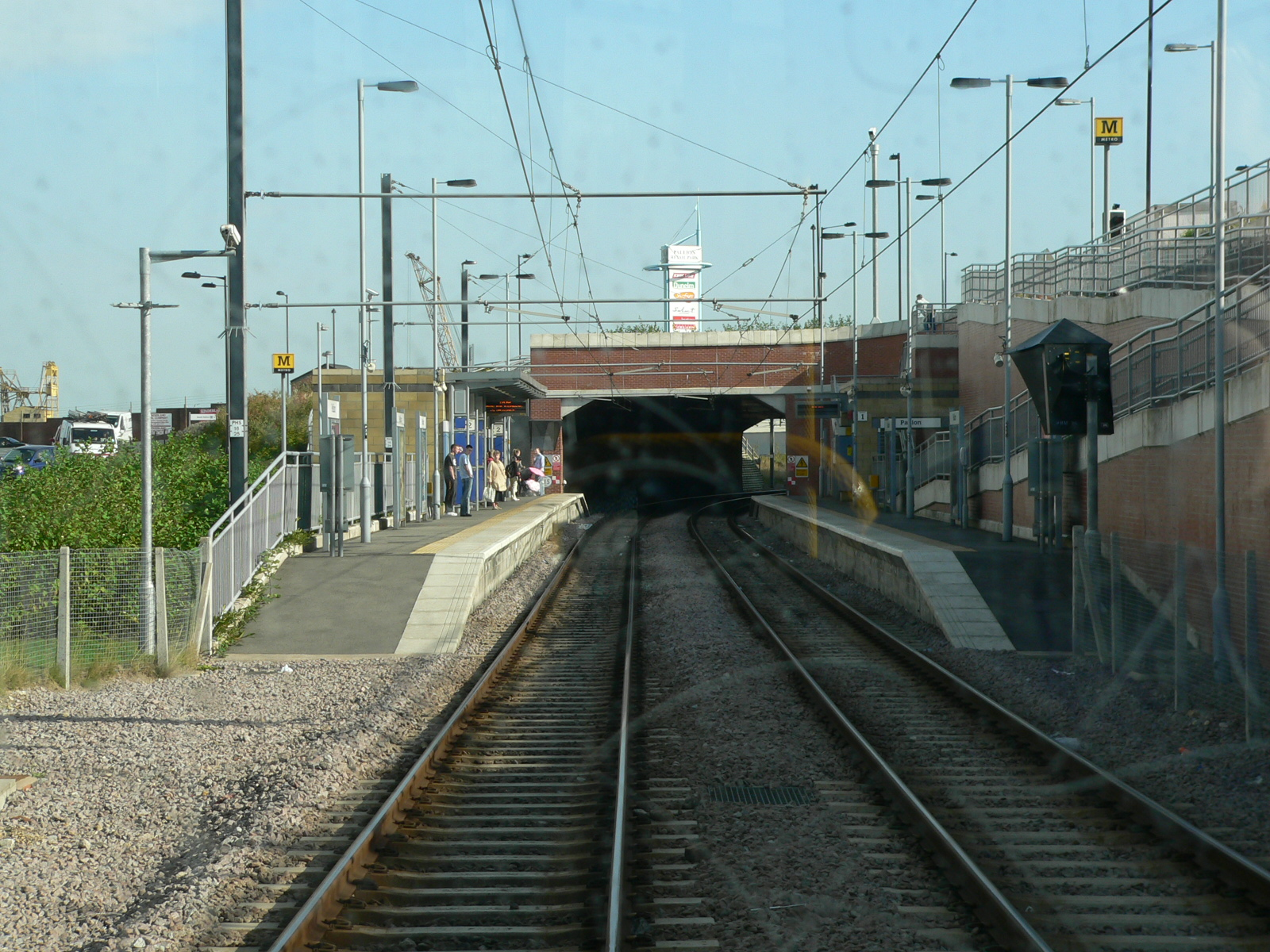 The view through the front window of a Tyne and Wear Metro train service from South Hylton towards Sunderland and Newcastle as it approaches Pallion station eastbound, the first of more than 40 intermediate stops on the journey.